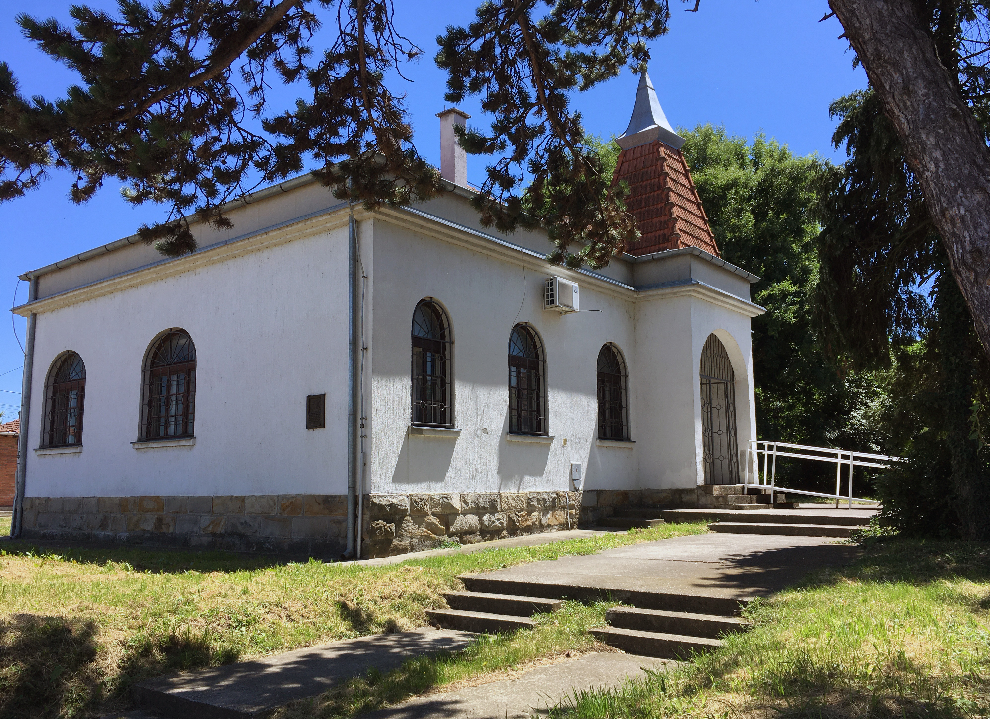 City Museum in Trstenik